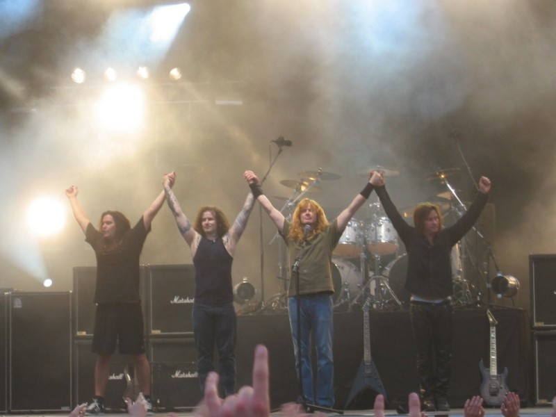 Megadeth at Sauna Open Air Metal Festival in Tampere on June 11 2005. This photo is taken by user Lord Heinrich.